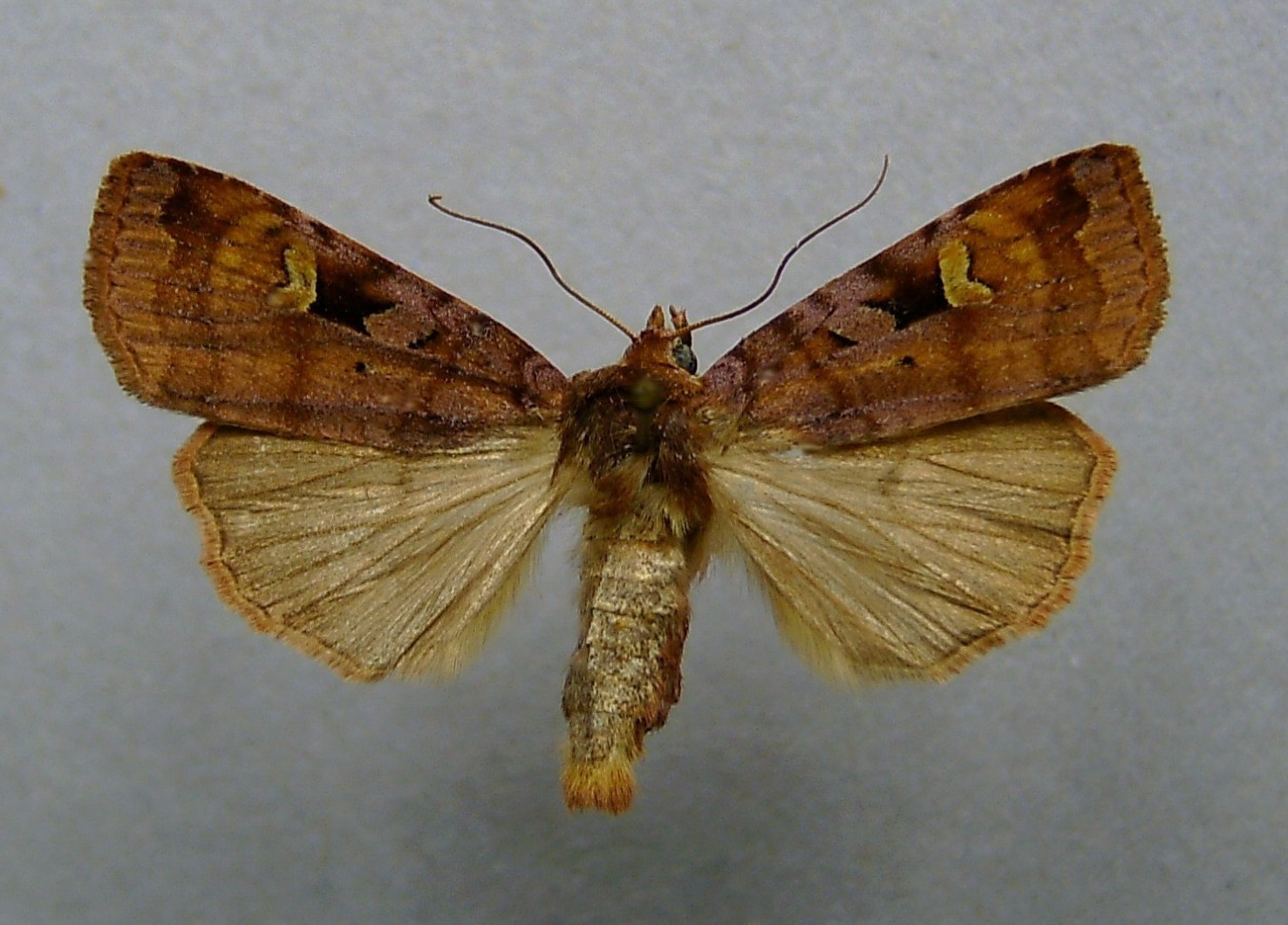 Diarsia brunnea, Berlin-Pichelswerder, Germany